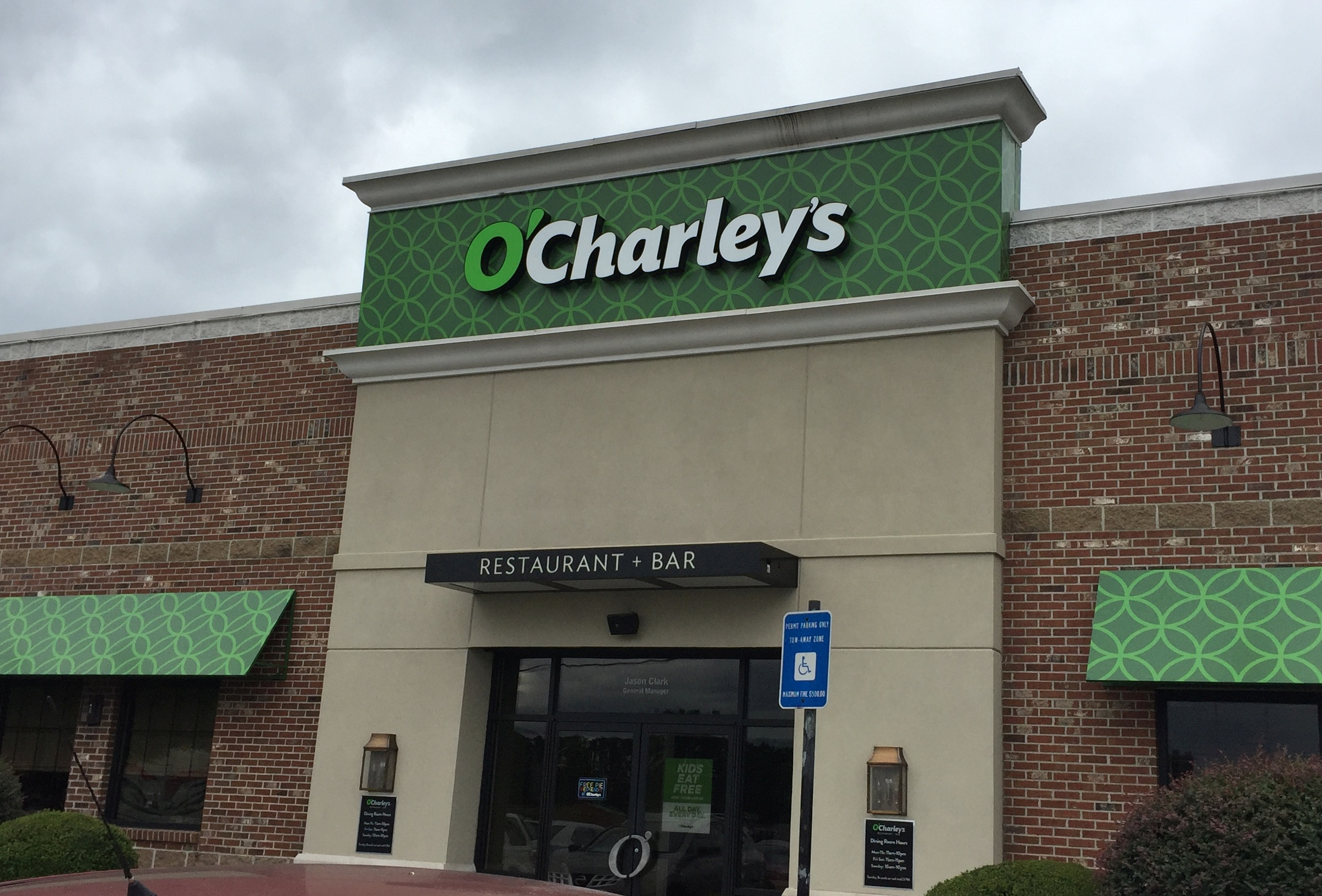 O'Charley's in Acworth, Georgia, 2016